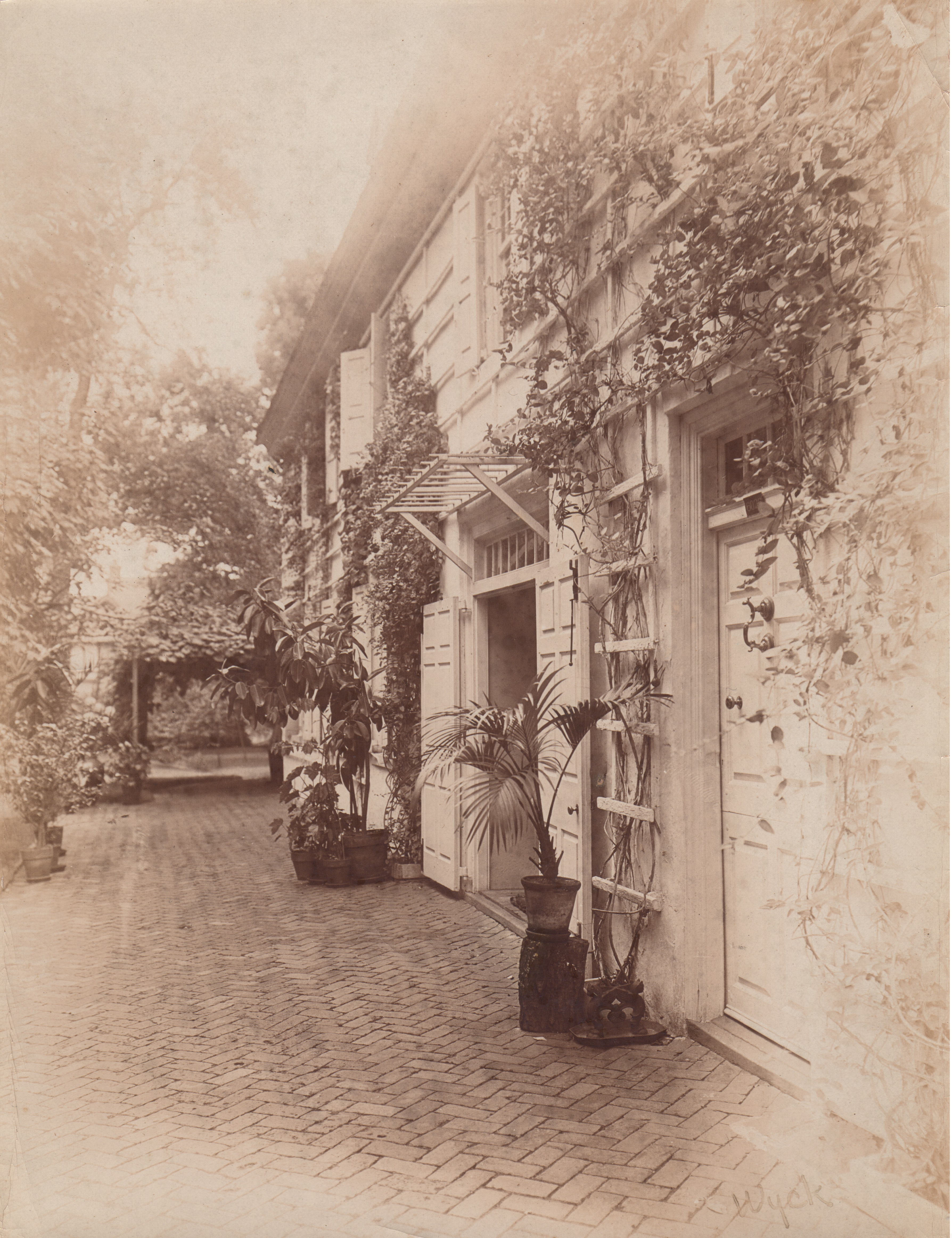 Wyck House, Germantown, Pennsylvania, (c.1900), located on the southwest corner of Germantown Avenue and Walnut Lane, Germantown, Philadelphia, Pennsylvania. Original platinum print on Eastman Kodak sensitized paper by Henry Troth (1859-1945), American Pictorialist. Wyck House is a historic mansion, museum, garden and home farm in Germantown. The gardens are known for their collection of old roses, including 30 varieties, and the home farm has become a staple of the community. [Courtesy of the private collection, the Estate of Speakman-Miller-Matsinger.]